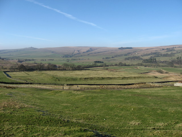 Habitancum Roman Fort Habitancum Roman fort, also known as Risingham, lies adjacent to Dere Street and close to the River Rede. It is a classic rectangular shape with rounded corners and is enclosed by a substantial rampart and wall. These measure up to 10m wide and stand up to 1.2m above the interior ground level. The standing remains were built in the early third century AD by the Emperor Severus and during excavations an inscribed stone was found bearing an inscription attesting to this. Three gateways were built as entrances to the fort and inside traces of many buildings can be seen surviving as earthworks. Some of these remains are probably from later re-occupation of the fort. A medieval settlement lies over the Roman remains and around the outside of the fort are fields of ridge and furrow cultivation. These mask a series of Roman ditches which would have added another layer of defence to the fort. Parts of the fort have been excavated on several occasions in the 19th and 20th centuries. (Information from Keys to the Past